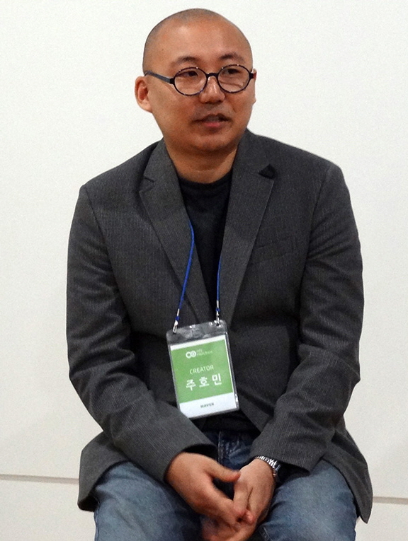 Joo Ho-min (주호민) on March 20, 2013